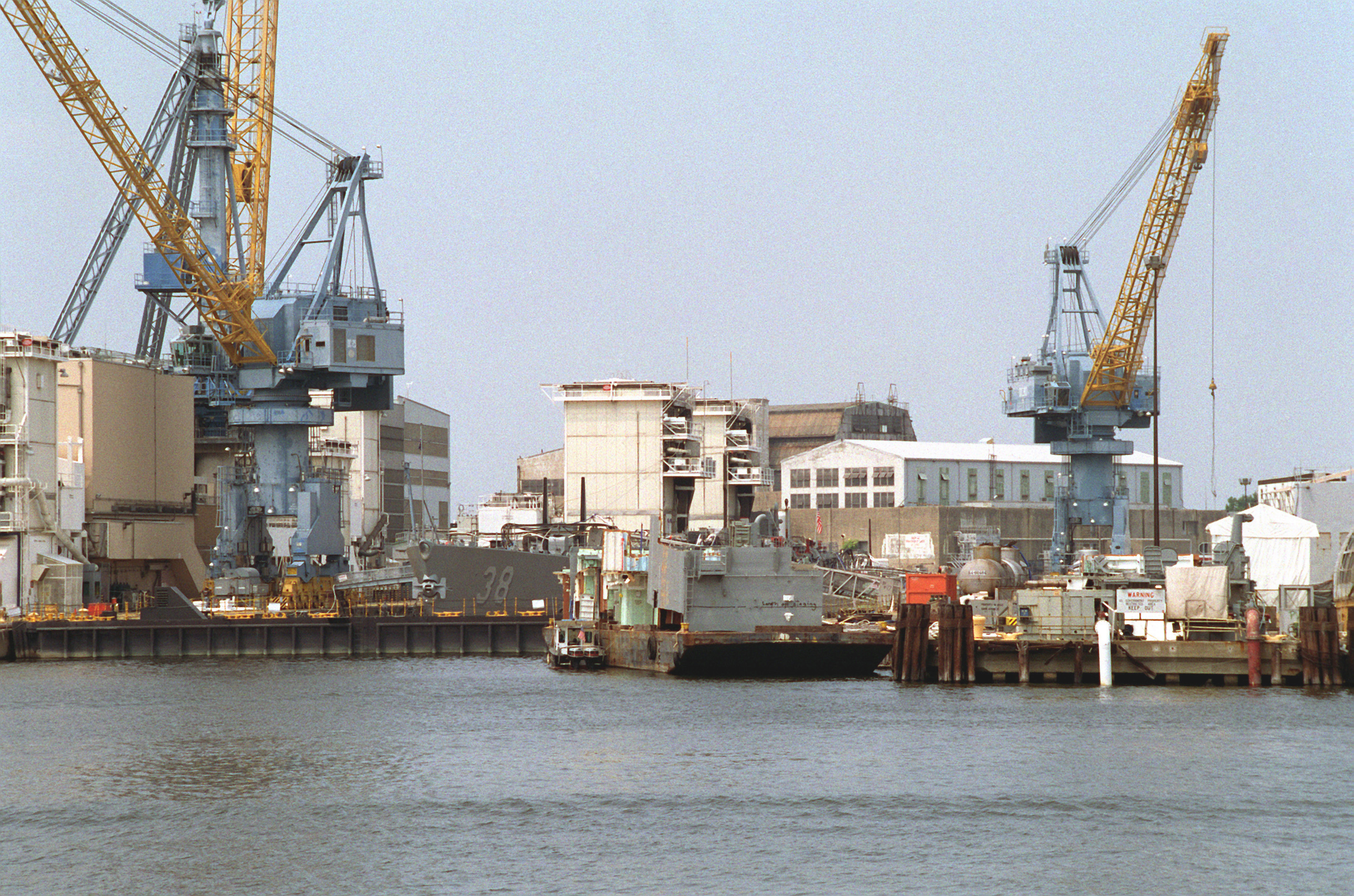 A bow on view of the nuclear-powered guided missile cruiser USS VIRGINIA (CGN-38) in a dry dock at the Norfolk Naval Shipyard undergoing deactivation. The superstructure has been removed and containment structures placed over the hull so the shipyard can remove the ship's nuclear core. Location: ELIZABETH RIVER, NORFOLK, VIRGINIA (VA) UNITED STATES OF AMERICA (USA)